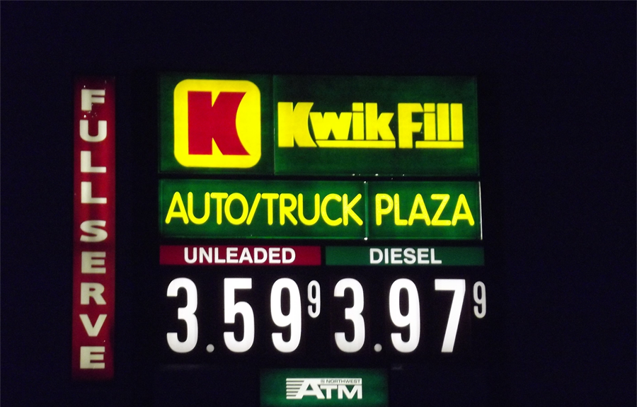 photo of signage at Kwik Fill service station, Kyletown, Pennsylvania